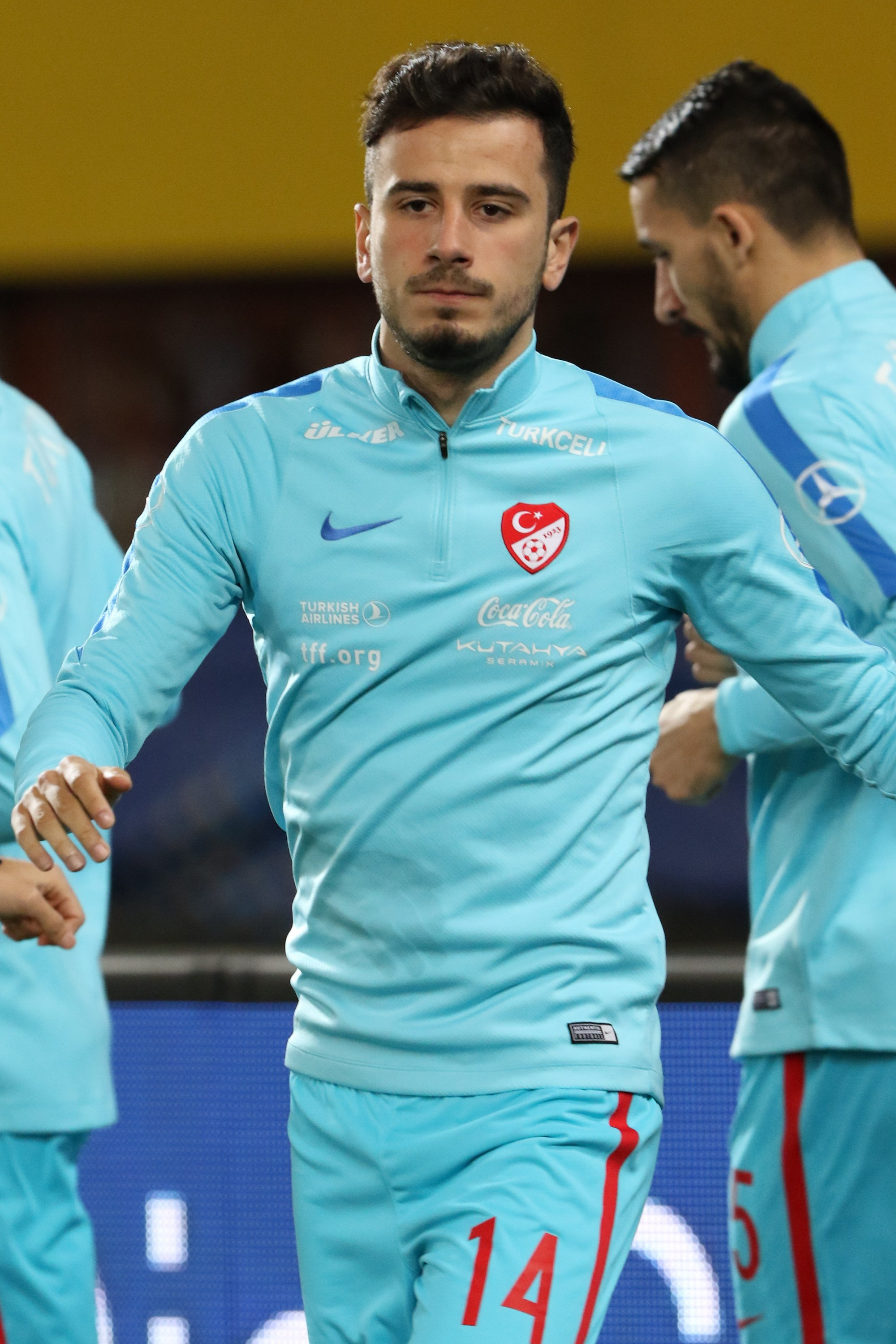 Friendly match – Austria (red shirts) vs. Turkey (blue shirts) 1–2 (1–1) on 2016-03-29 in Ernst-Happel-Stadion, Vienna – The photo shows Oğuzhan Özyakup (Beşiktaş).